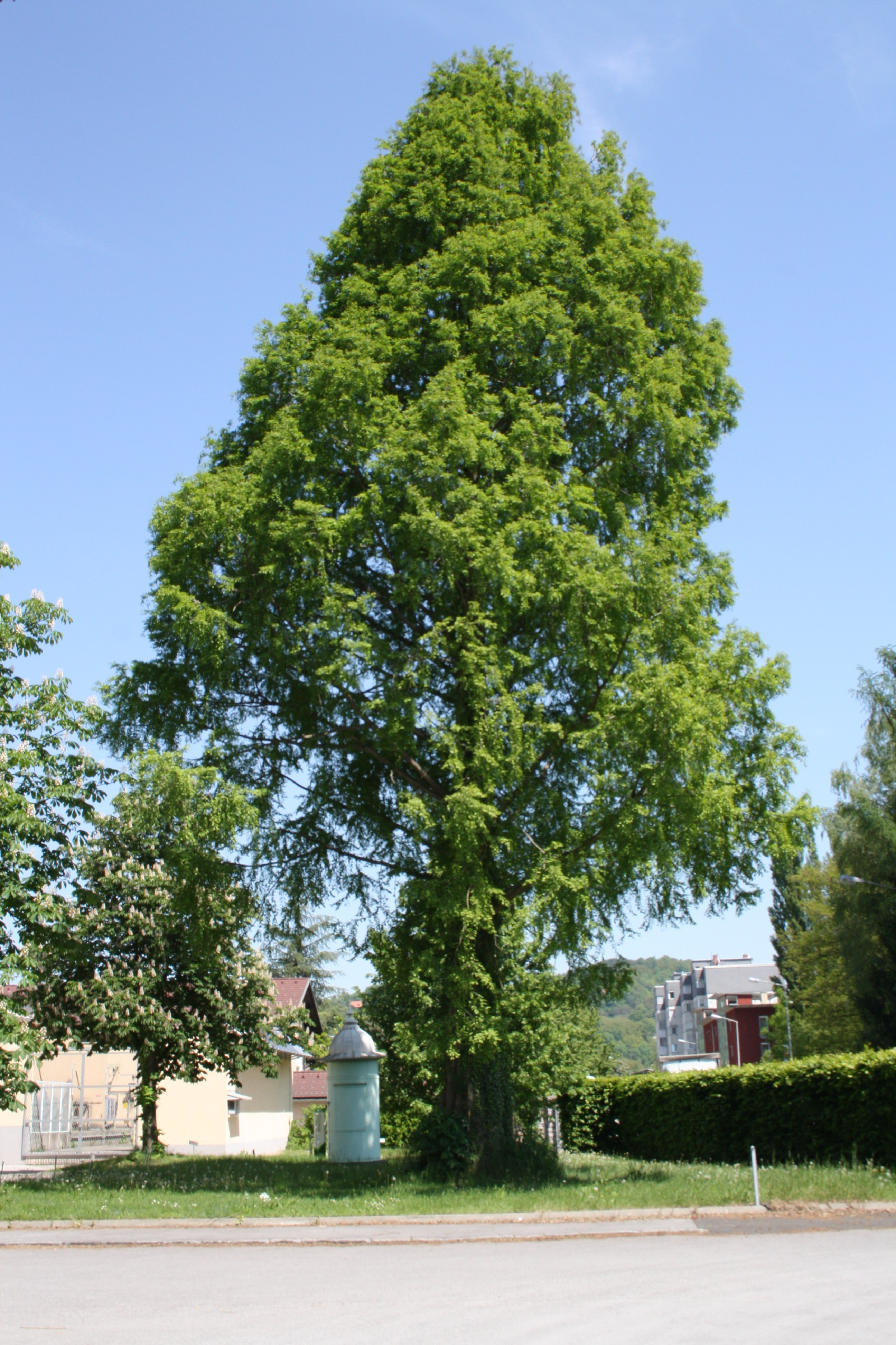 Metasequoia , Dawn Redwood , Metasequoia glyptostroboides